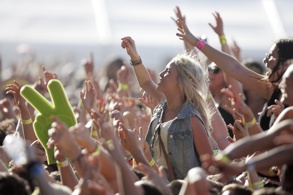 Future Music Festival, Randwick, Sydney, Australia...